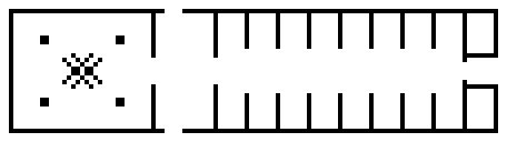 Simplified sketch of a house from Federsen Wierde, scale: 1m = ca. 4 Pixel